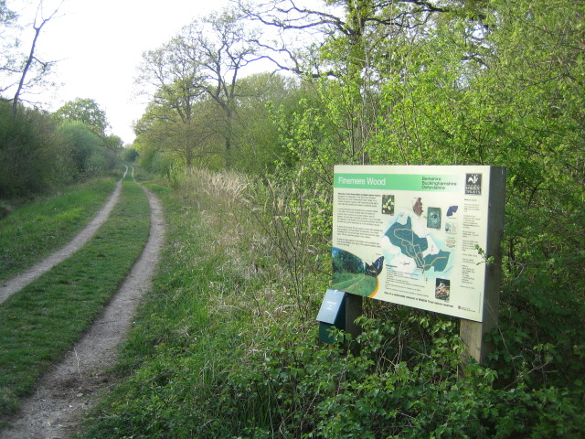 Finemere Wood Finemere Wood is a ancient woodland of 45.7ha, which was once part of the Great Forest of Bernwood. This forest was first mentioned in written records in the early tenth century, and in the 11th and 12th centuries was the hunting ground for deer and wild boar of medieval kings, and was itself was one of a series of linked hunting reserves that stretched from Oxford to Stamford. The old name for Bernwood was Barne Woode and King Edward the Confessor built a royal hunting lodge at Brill. It is estimated that at the time of Henry II, the forest covered at least 90,000 acres (or by another measure, 50 modern day parishes). Hunting forests provided considerable income from oak production and hunting, and were protected by forest laws. There were harsh penalties for anyone caught poaching deer or felling the trees. The term 'forest' however described a place of deer not necessarily a place of trees, and there were also large areas of open arable land. By the 15th century however Bernwood had contracted to three parishes and in 1632 forest law was ended and it was disposed of as part of the crown’s attempts to raise revenue. The wood is a Site of Special Scientific Interest (SSSI) and is managed by the Berks, Bucks & Oxon Wildlife Trust, This path and noticeboard is close to the entrance at the southern end of the wood.